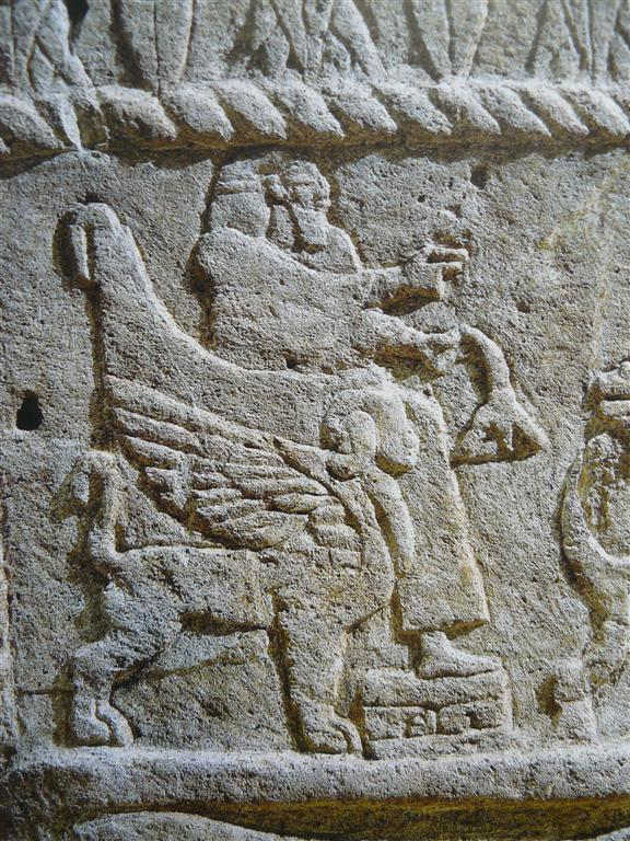 detail from the Ahiram sarcophagus